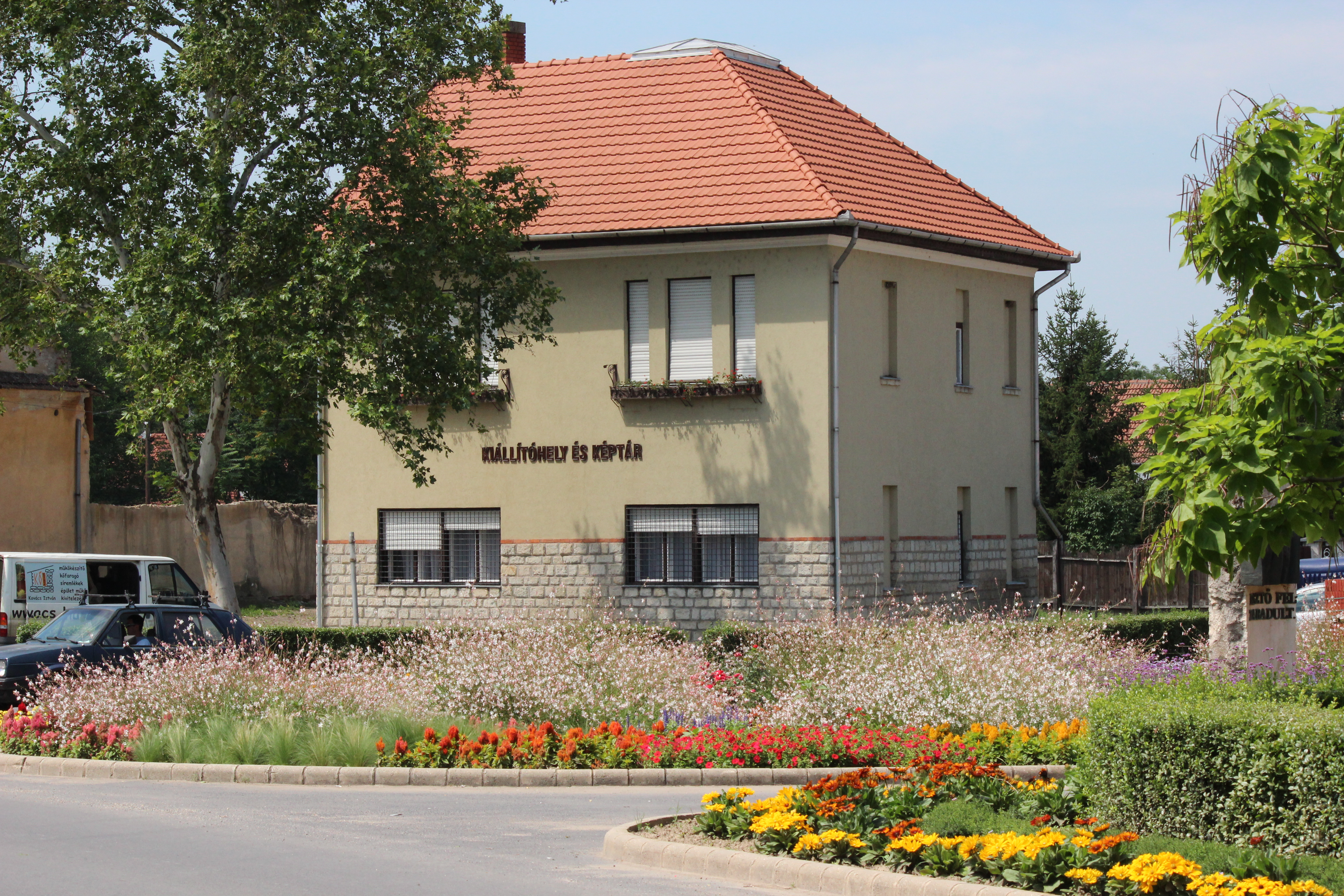 Exhibition and gallery (Vésztő, Hungary).